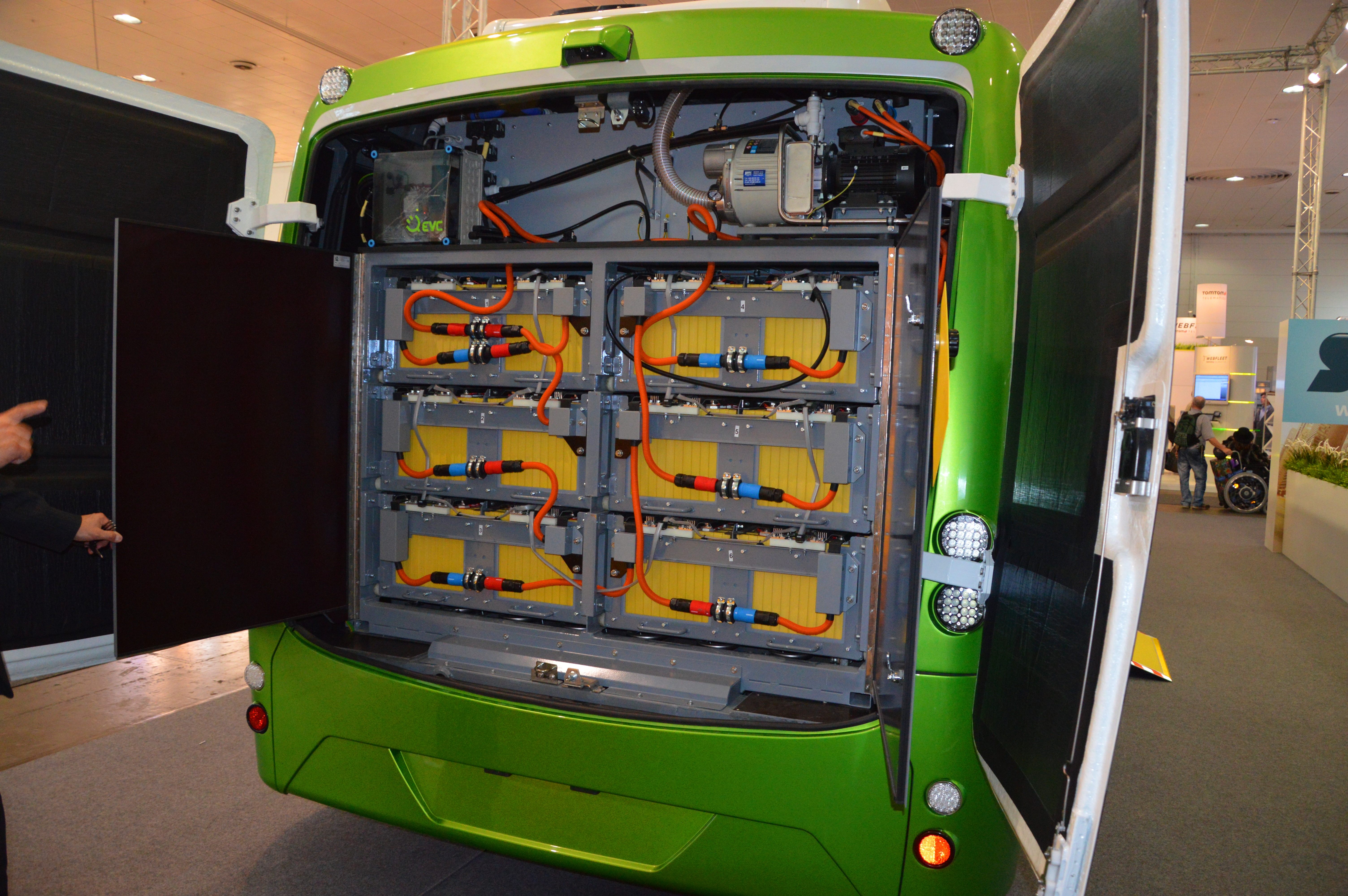 Electric city bus SOR EBN 11. Electric engine 120 kW. View on traction Lithium-Ion batteries. Manufacturer: Winston Battery. Electric engine 120 kW. Photo taken at exhibition IAA 2014 in Hanover, Germany.